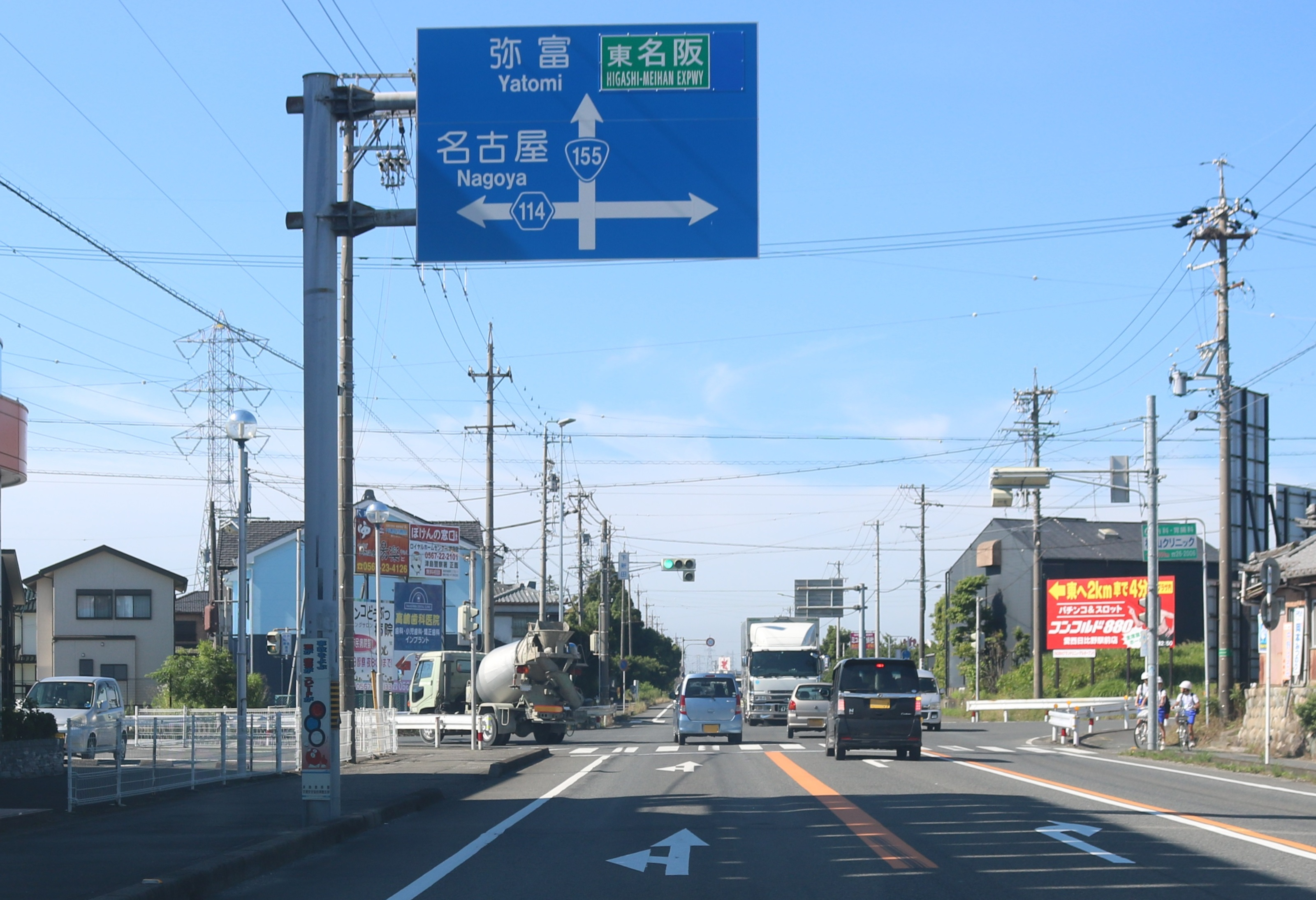 Aichi Prefectural Road Route 114 and Route 155 in Shimoshindencho, Tsushima, Aichi Prefecture, Japan.